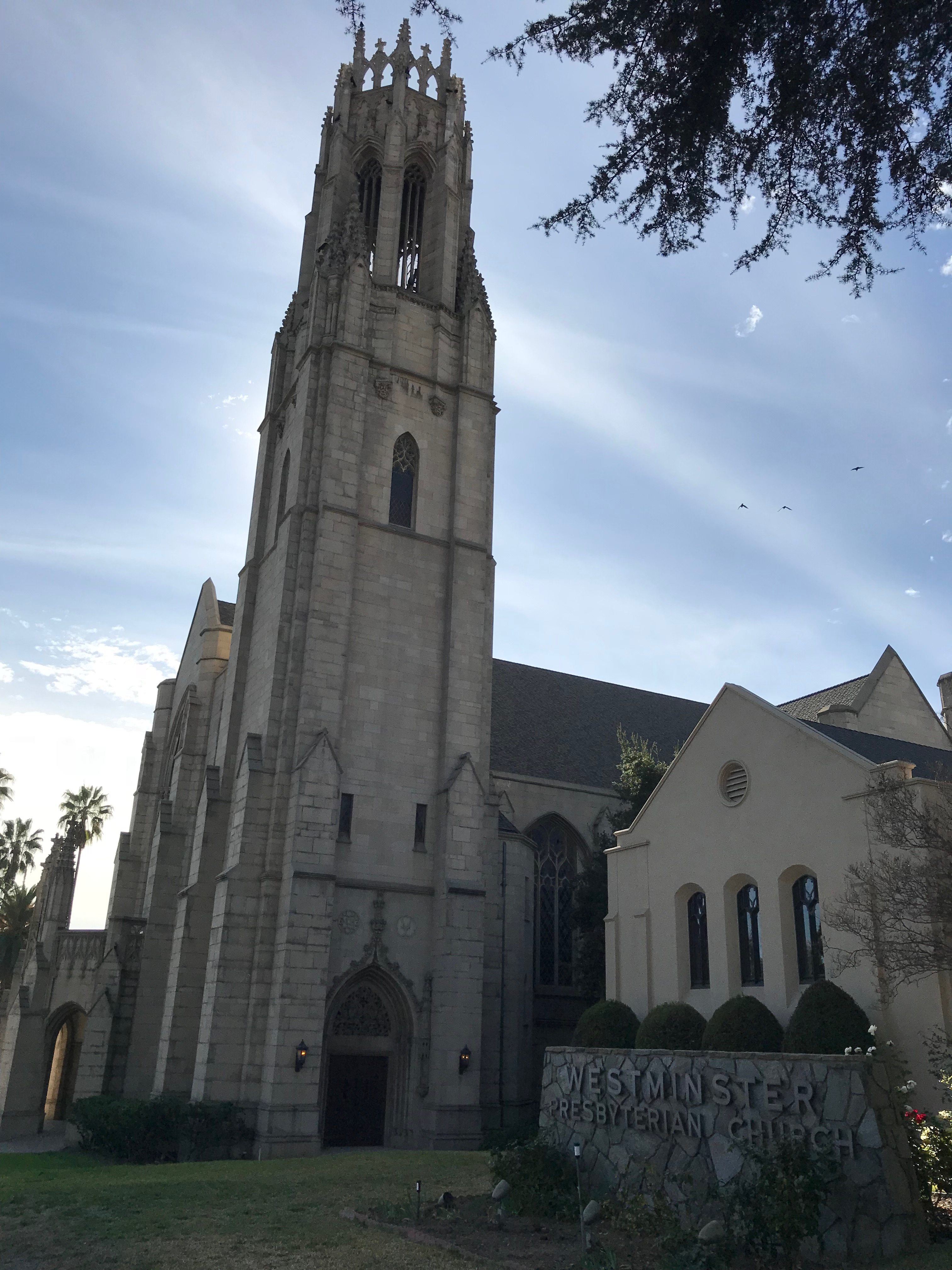 Westminster Presbyterian Church, visible for over a mile, this Gothic-style church is located on the west side of Lake Avenue, between Atchison and Woodbury Road